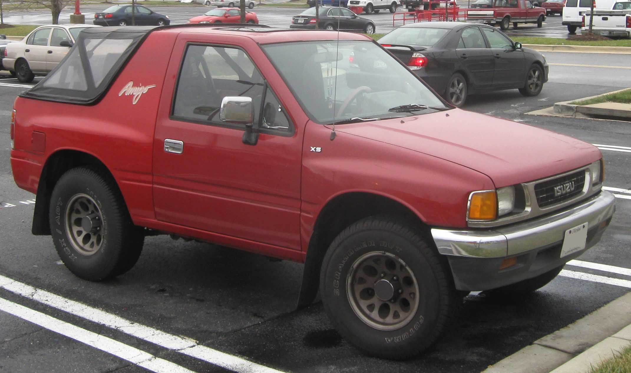 Isuzu Amigo photographed in Largo, Maryland, USA.